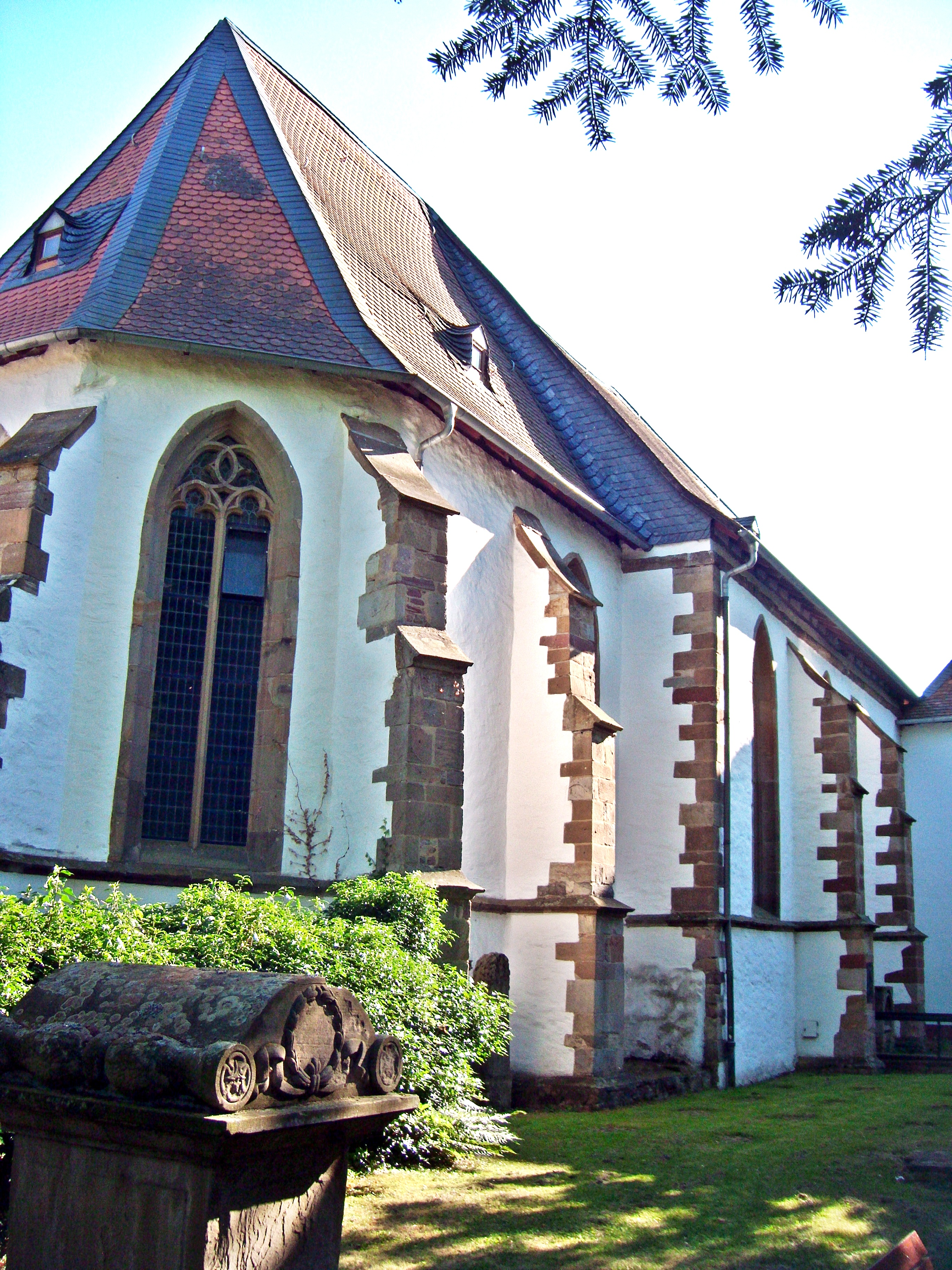 Monastery Hane, Bolanden